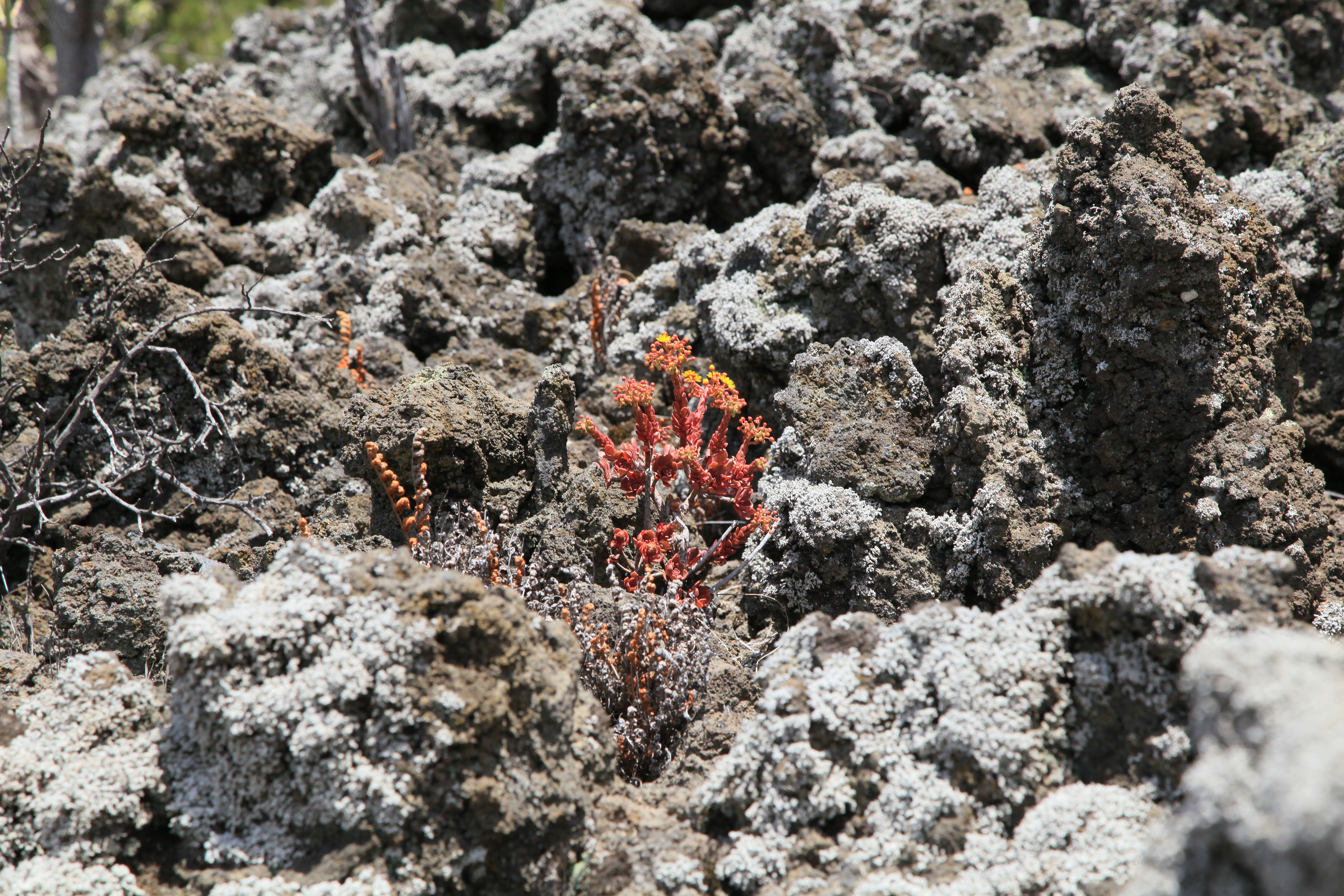 Yet unidentified Aeonium growing in lava from Volcán del Charco at LP-2 right on the border between El Paso and Fuencaliente, La Palma, Canary Island, Spain